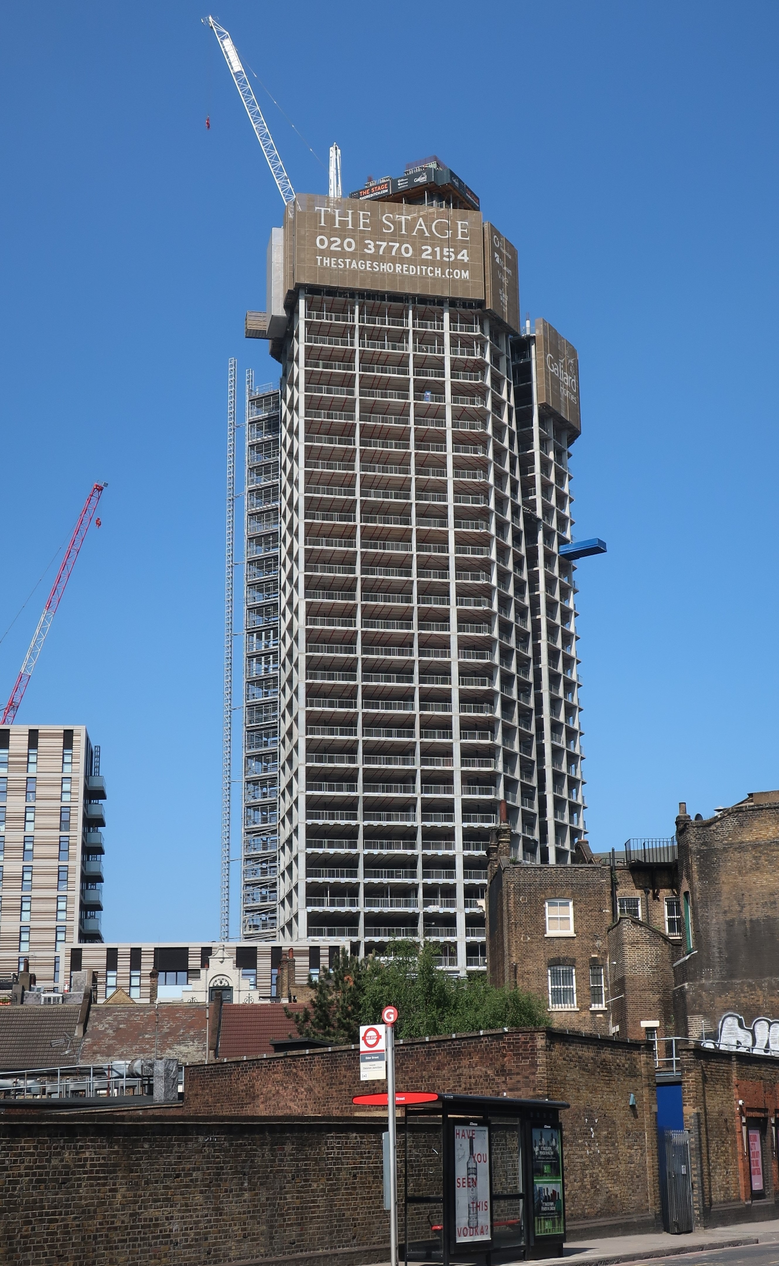 The Stage, a residential tower block in Hewett Street, Shoreditch, London EC2, under construction, May 2020. The development is on the site of the Curtain Theatre, an Elizabethan playhouse.